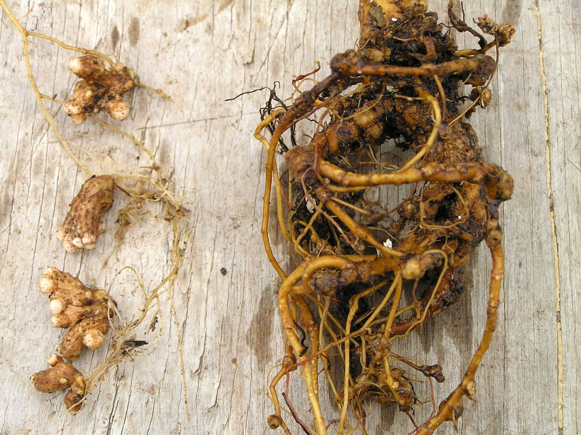 Meloidogyne sp. on Acacia koa right Bradyrhizobium nodules left.